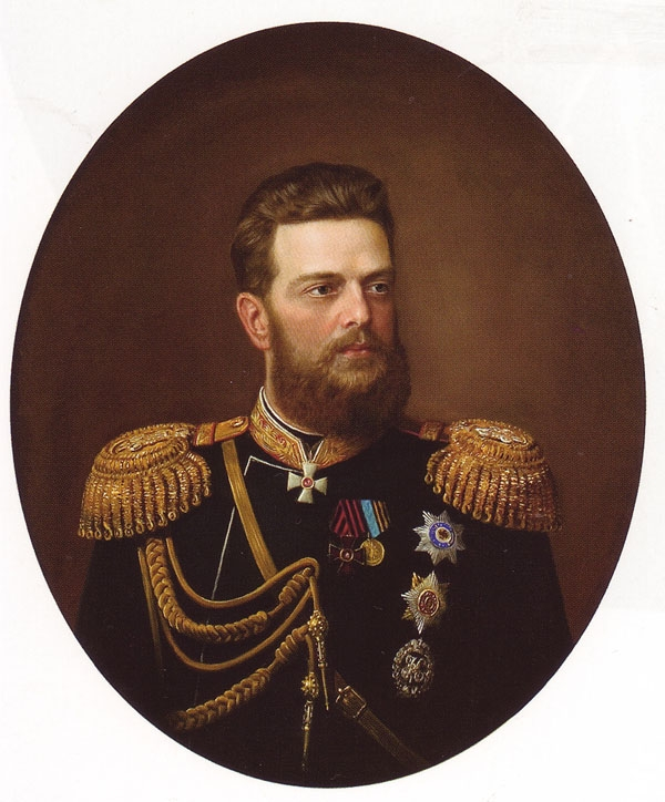 Grand Duke Vladimir Alexandrovich of Russia